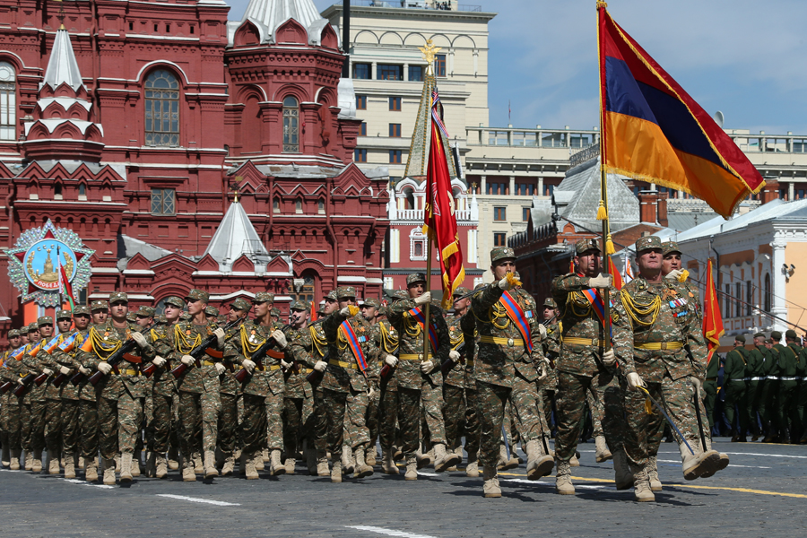 Armenian troops in Victory parade in 2015